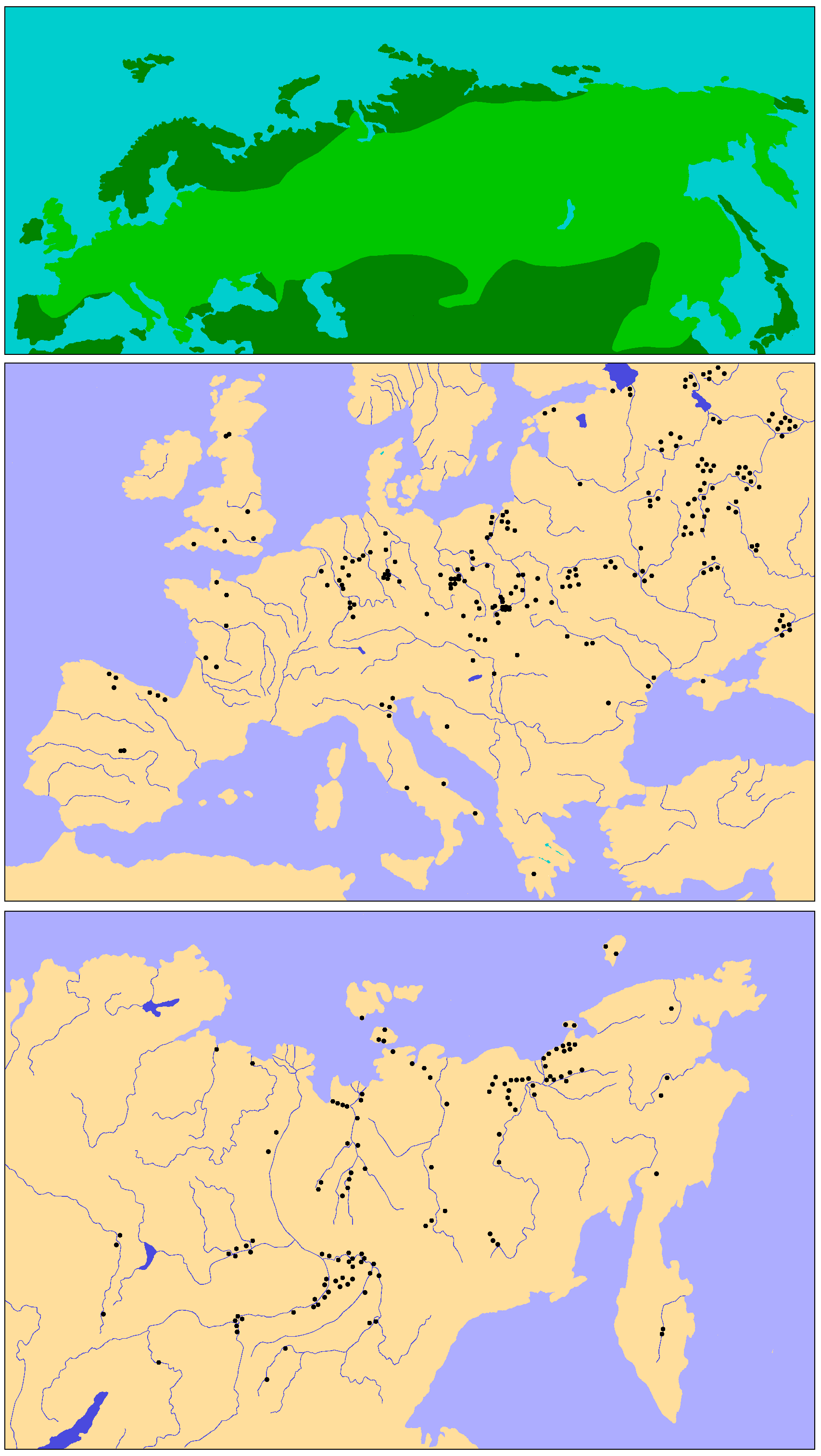 distribution of woolly rhino. Above: Distribution in Eurasia, center: distribution in Europe, below: distribution in North East Asia.